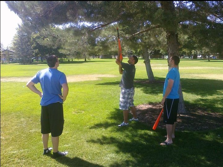 Wiffle Golf is a costly game. Sometimes equipment can be lost and unrecoverable in brush, trees, or water hazards.